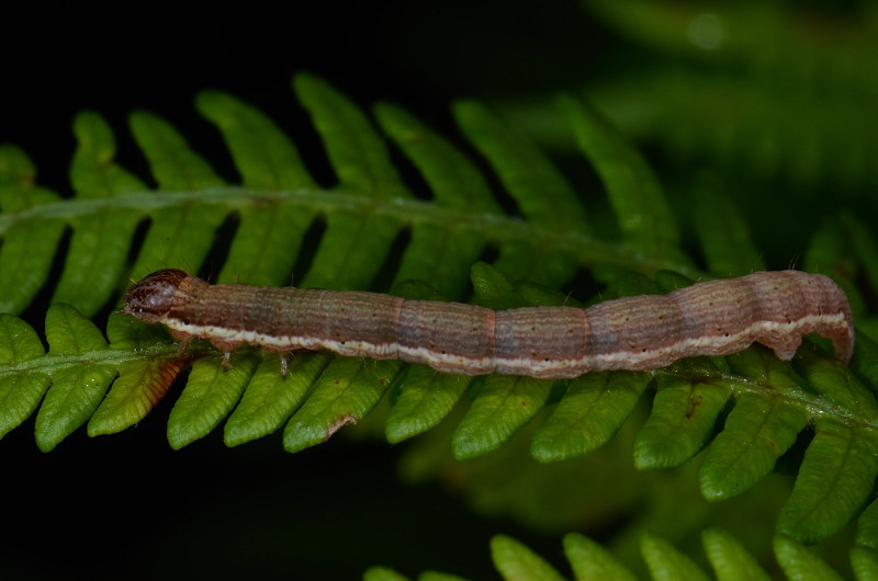 Petrophora chlorosata, larva. Location: The Netherlands - Nationaal Park de Meinweg.